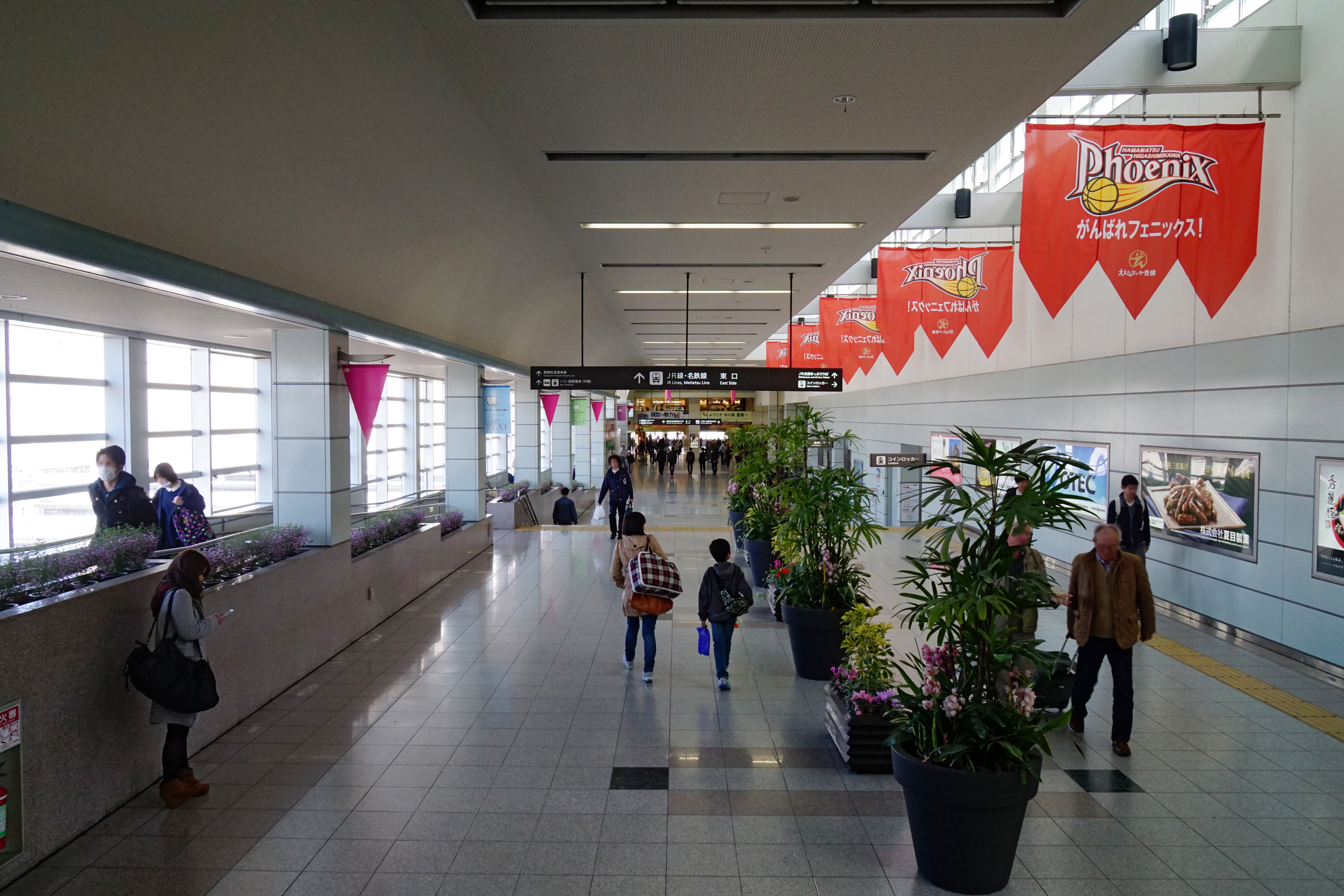 Toyohashi Station in Toyohashi, Aichi prefecture, Japan